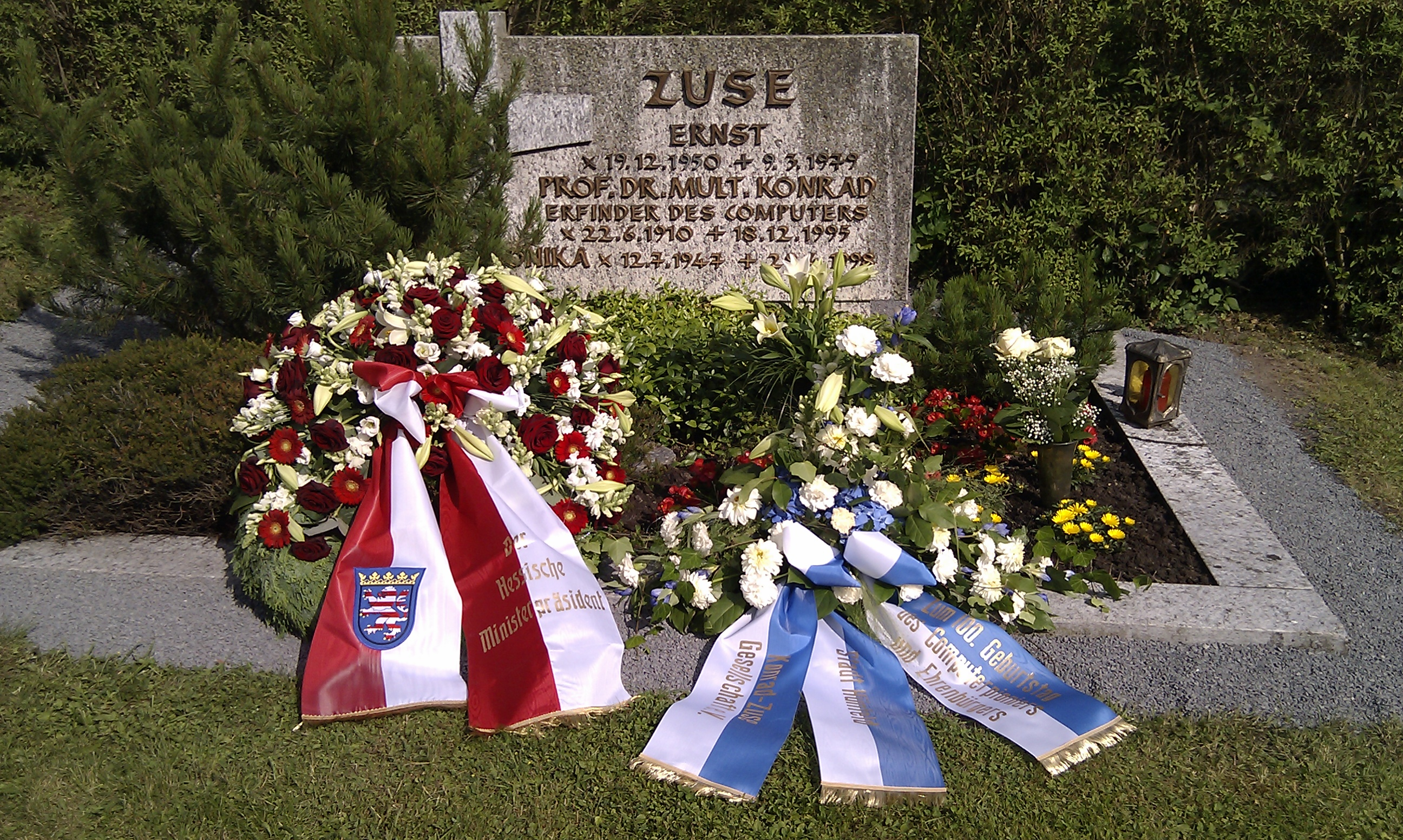 Grave of Konrad Zuse in Hünfeld